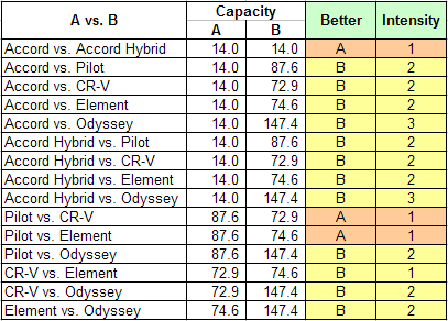 Part of a series of images to illustrate an article on the Analytic Hierarchy Process